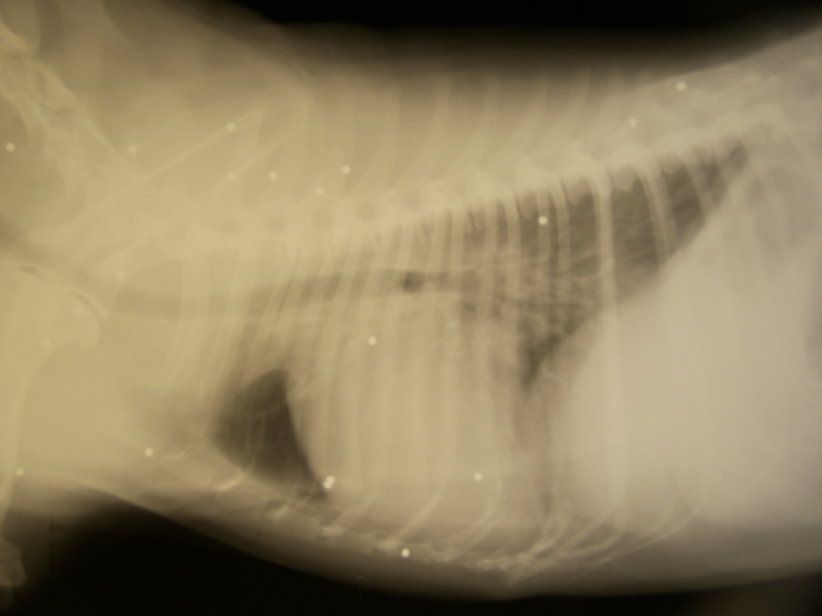 Thorax X-Ray of a shot cat